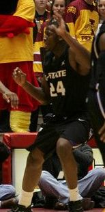 Craig Brackins (iowa State) and Curtis Kelly (Kansas State)